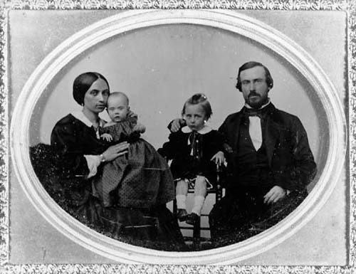 Whaley Family. Whaley House (San Diego, California). Public Domain